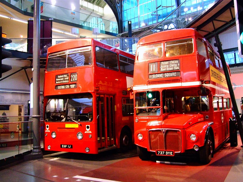 Two preserved London Transport buses in the London Transport Museum, Daimler Fleeline DMS1 (EGP 1J) on the left, and Routemaster RM1737 (737 DYE) on the right.